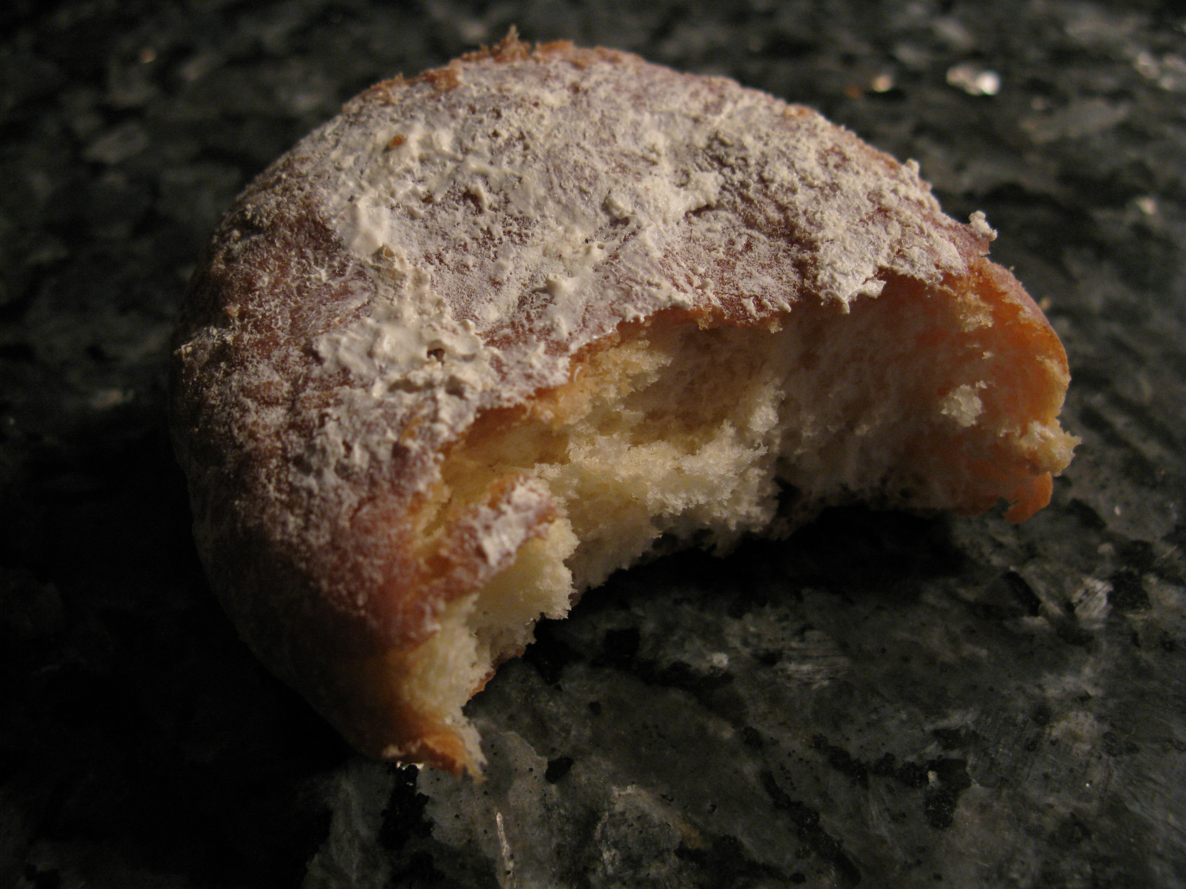 Powdered fasnacht from Pennsylvania Deitsch: Pudert Faasnachtkuche vum Pennsilfaani